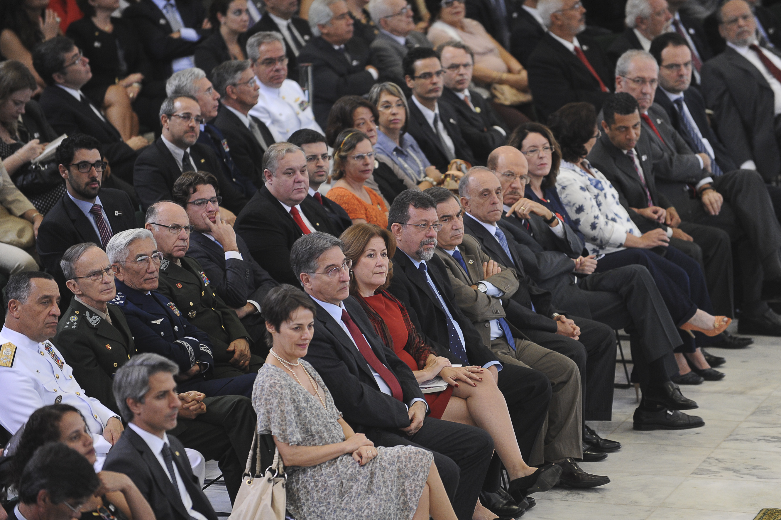 Inauguration of the National Truth Commission